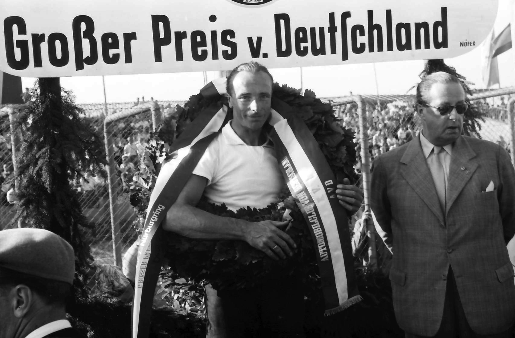 Winner of the Formula 2 class, Edgar Barth, standing on the podium following the 1957 German Grand Prix at the Nürburgring, West Germany.